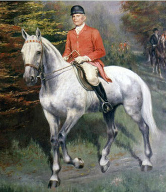 Dr. Otto Haars